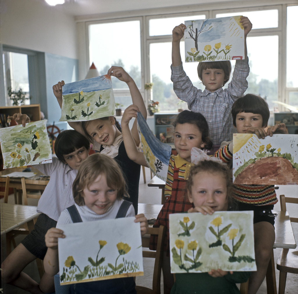 “Children with their drawings”. Children in a nursery of Moscow's Babushkinsky District showing their drawings.